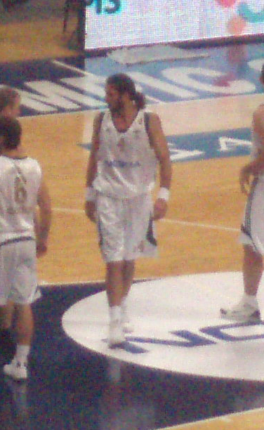 Alvertis. Panathinaikos - PAOK. 100 years Panathinaikos celebration